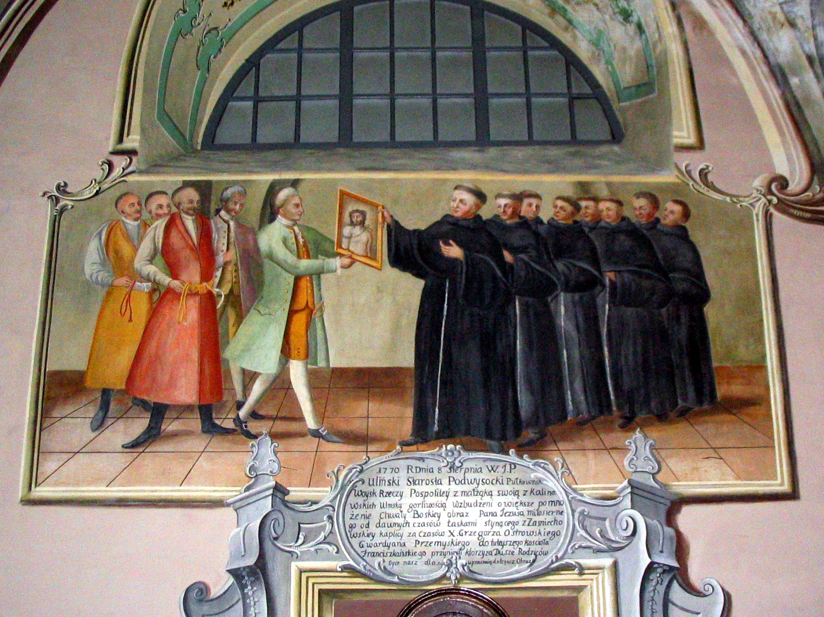 Franciscan Church in Przemyśl